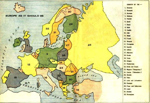 map from book showing author's plan for the creation of ethnically based states after WWI